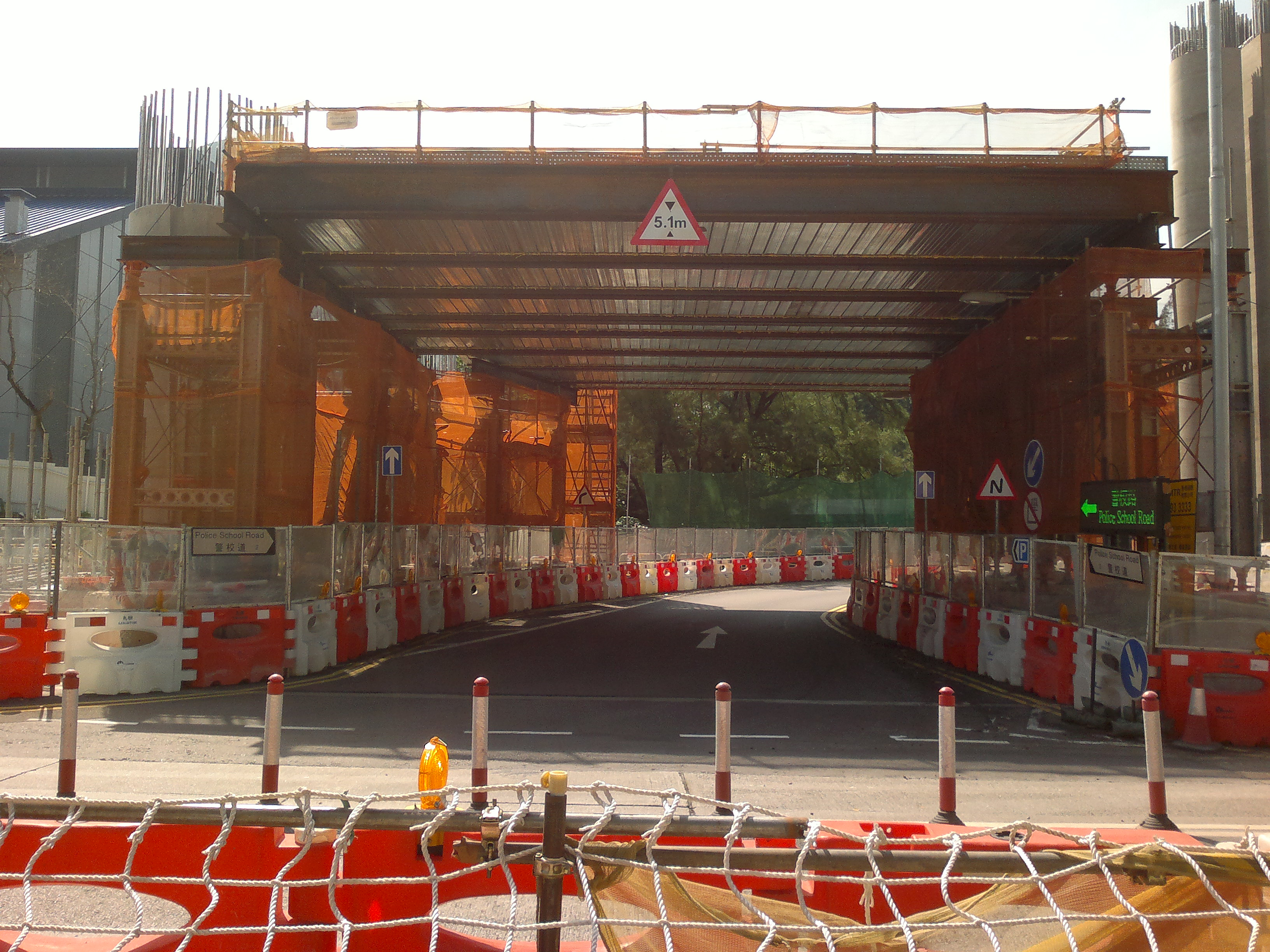 Police School Road Diversion in 2012